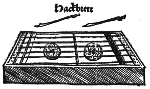 Hammered dulcimer